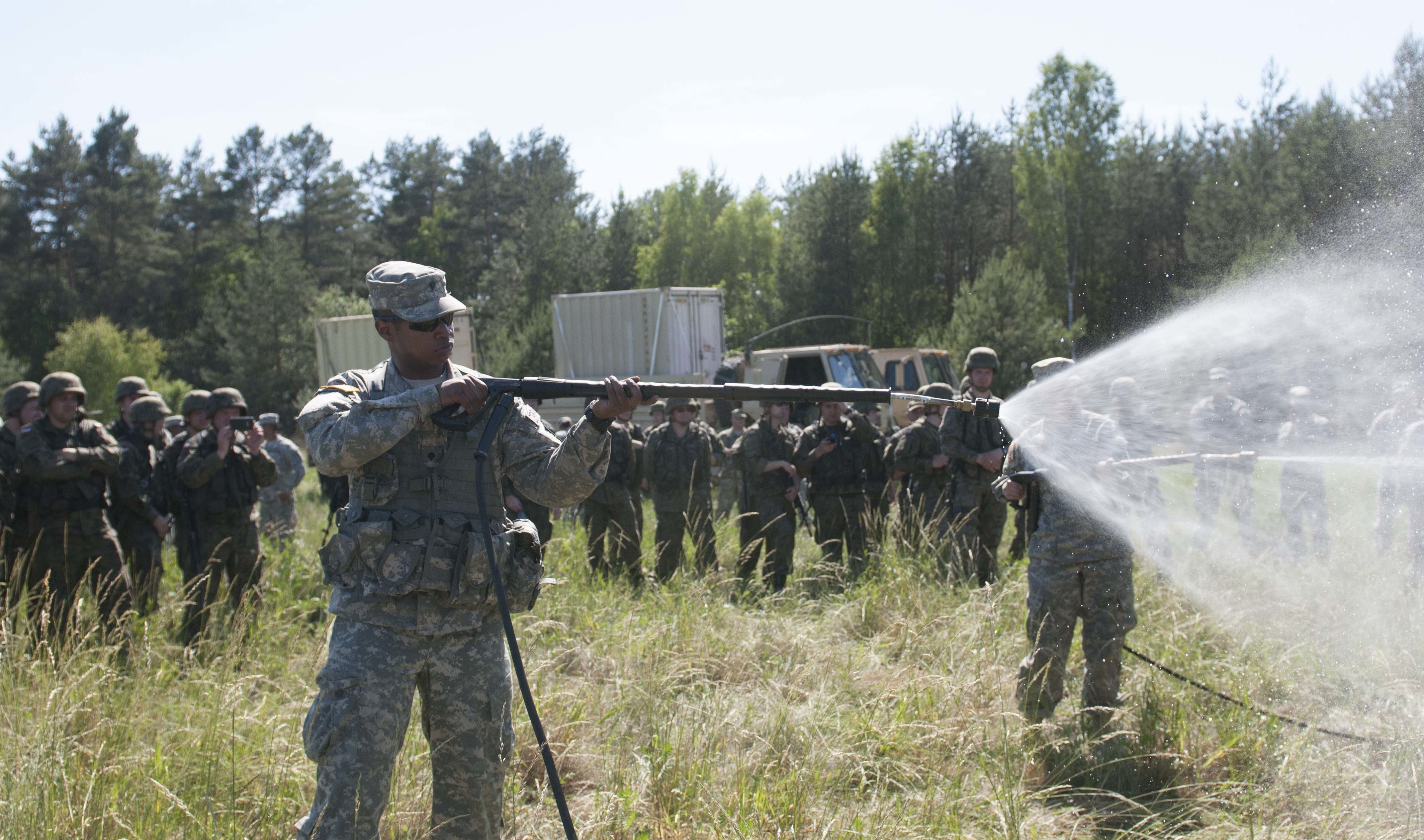 Spc. Frank Gully, a Chemical Operations Specialist, from the 44th Chemical Battalion of the Illinois National Guard, demonstrates his unit's equipment to Polish Soldiers, from the 5th Chemical Regiment, during Exercise Anakonda 2016, a Polish-led, multinational exercise running from June 7-17.